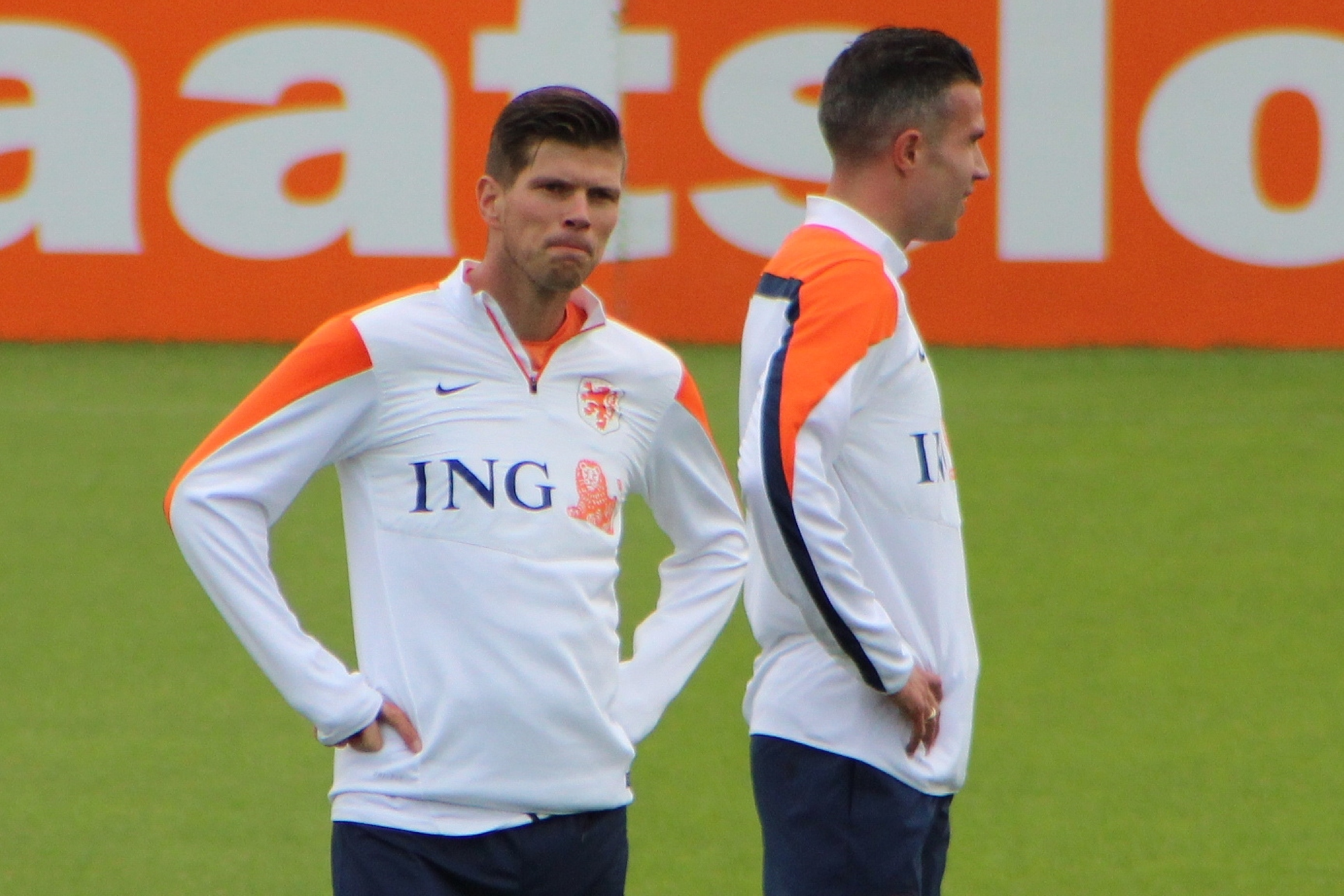 Cropped version